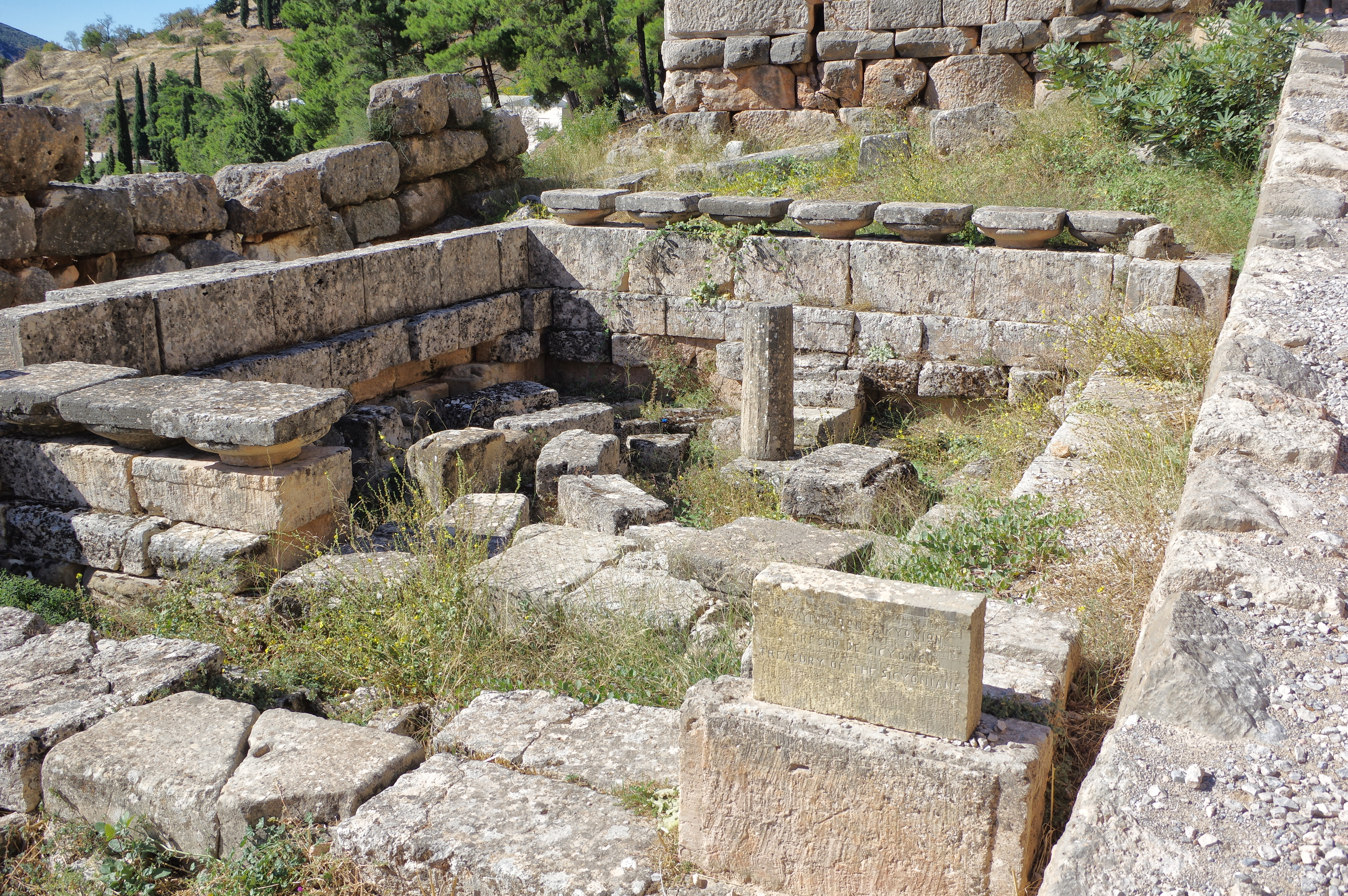 Greece, Delphi, Treasury of the Sicyonians